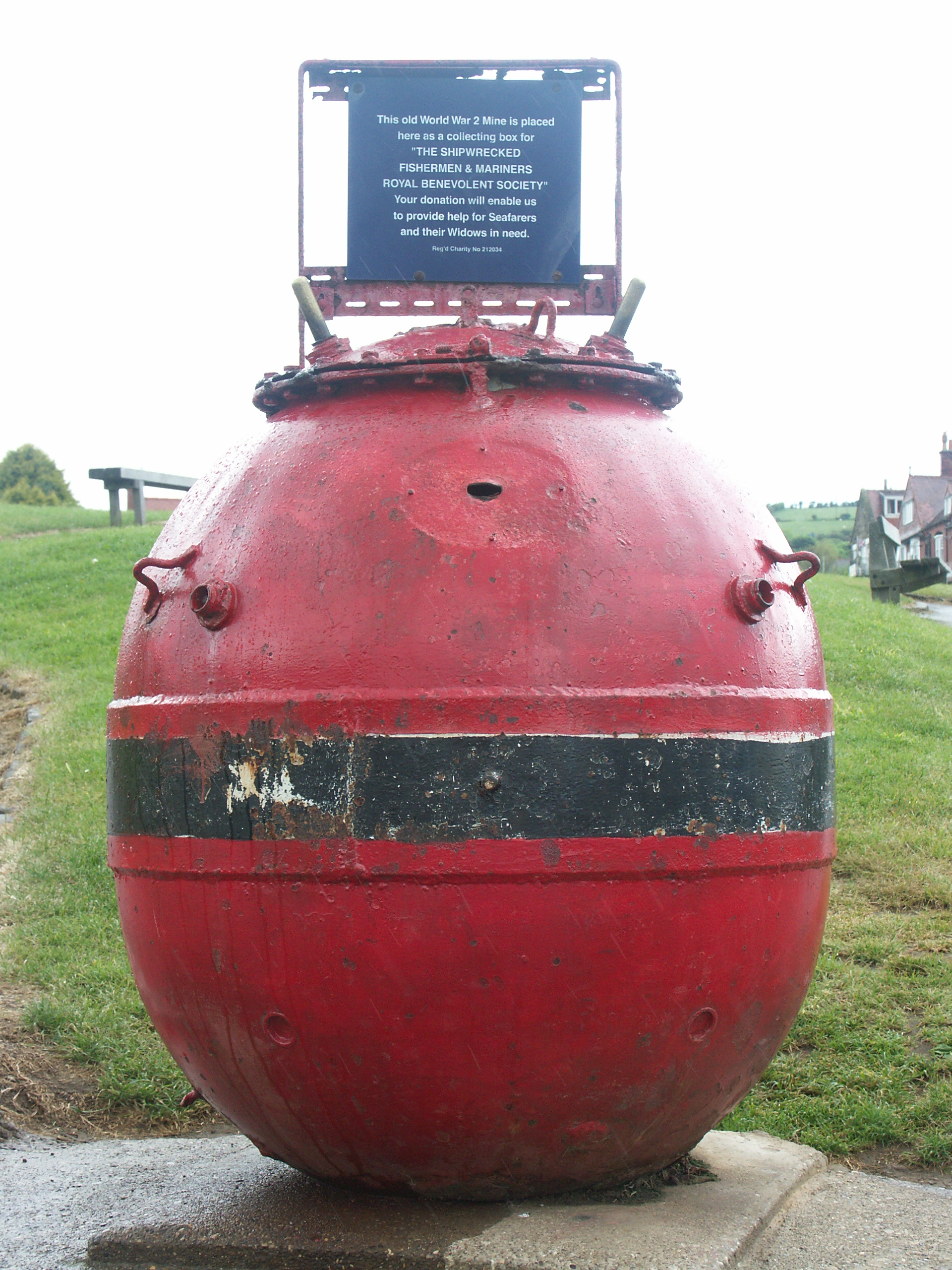 Sea mine, Robin Hood Bay, England Author: Radovan Bahna, Slovak republic